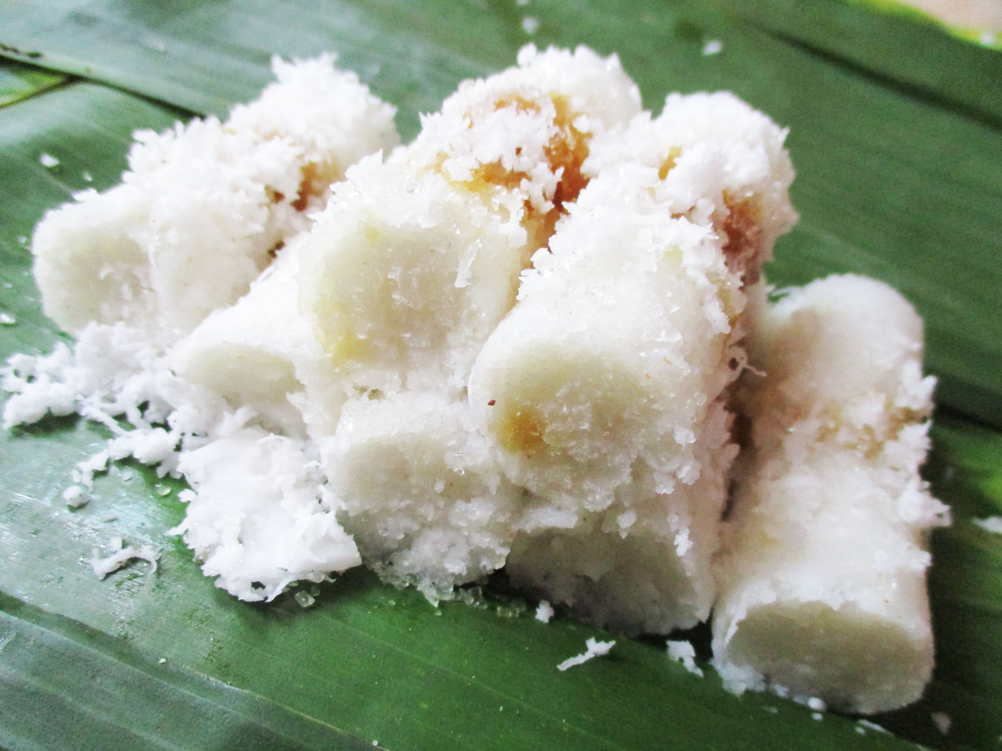 Kué putu is made from rice flour, palm sugar, and grated coconut.